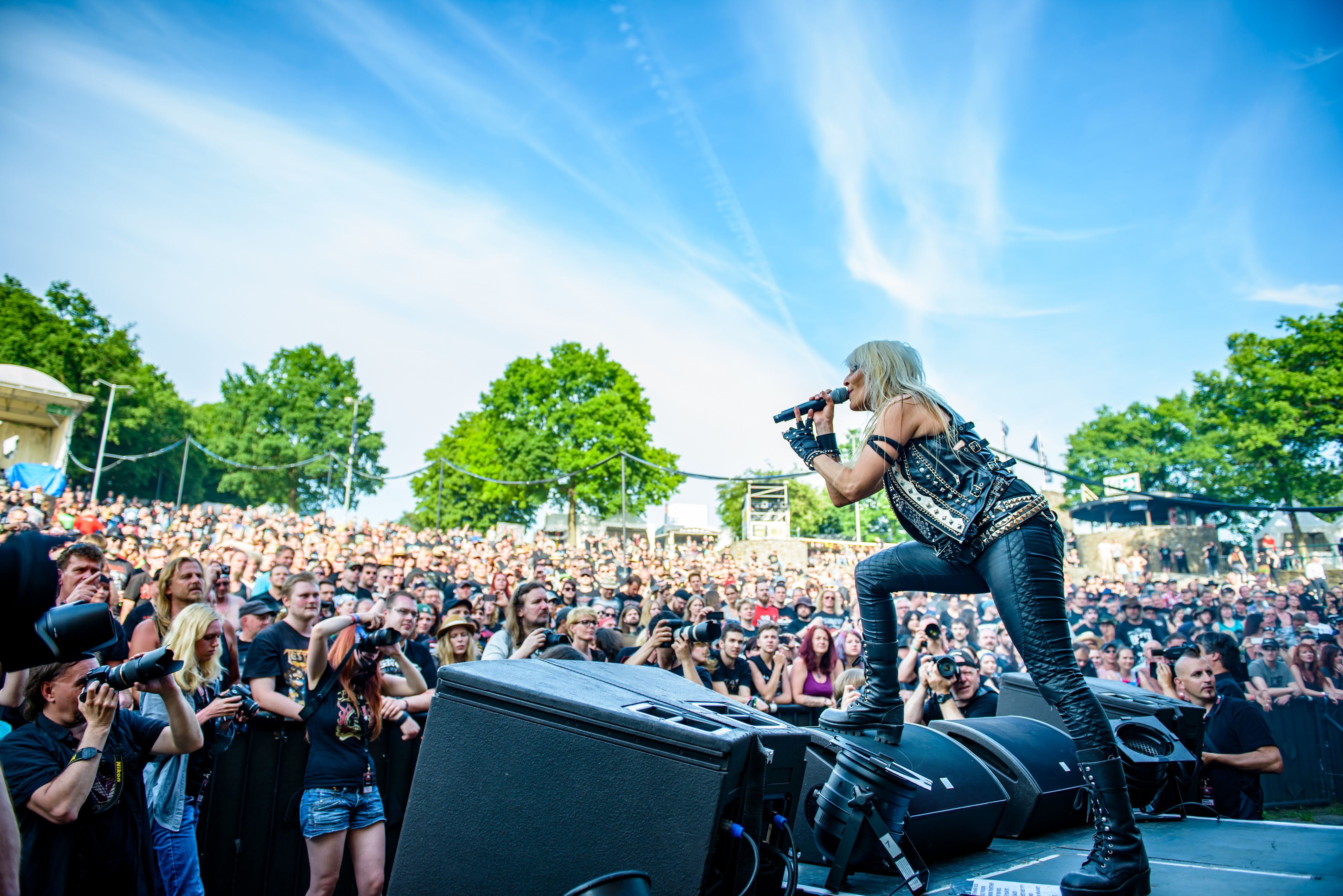 Doro; RockFels 2016 - Loreley